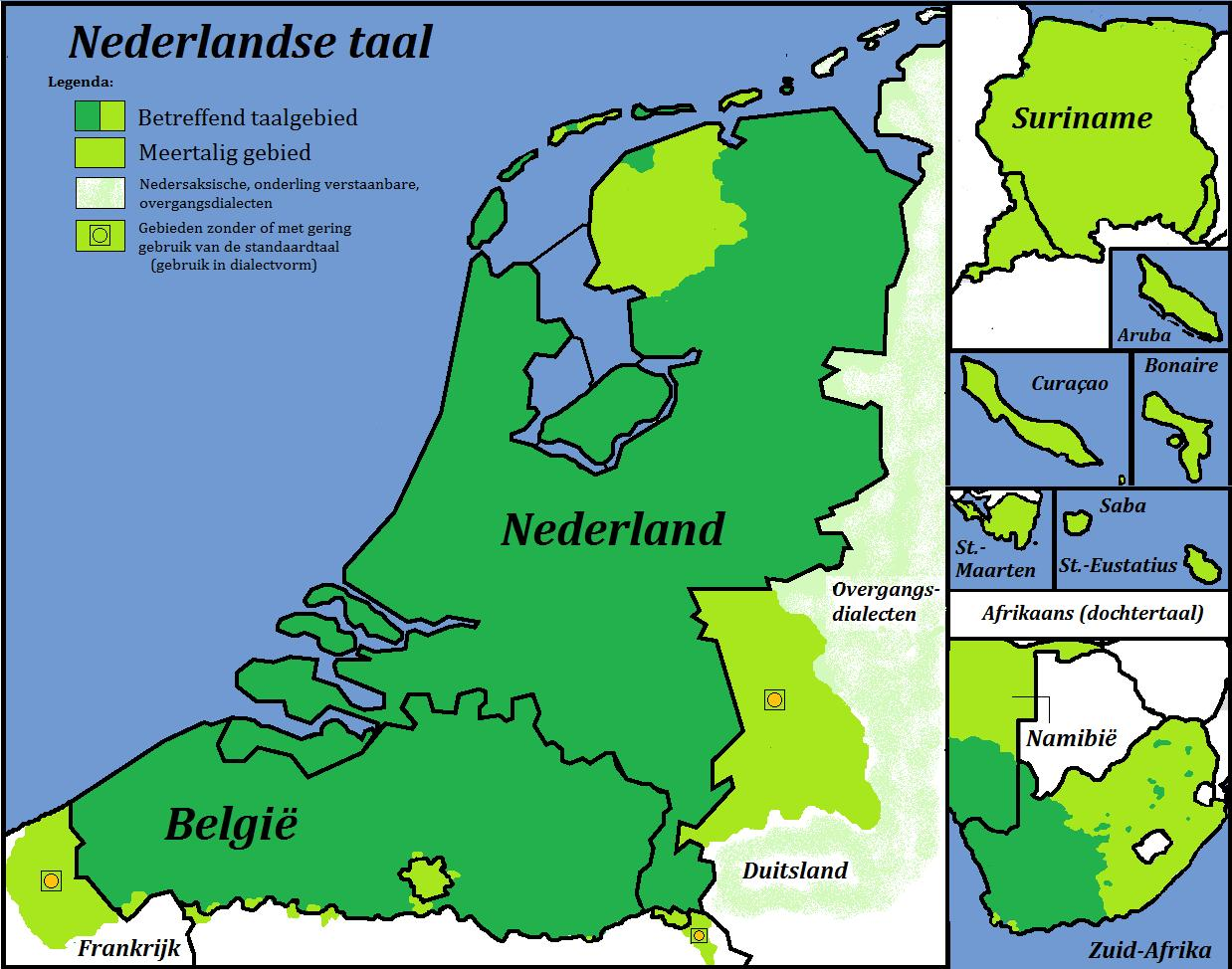 Status of the Dutch language.